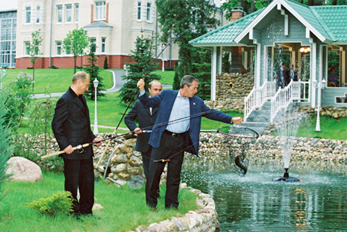 NOVO-OGARYOVO. President Vladimir Putin fishing with US President George Bush.